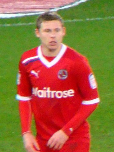 02/01/12 Cardiff V Reading, Championship, Cardiff City Stadium, Cardiff, Wales